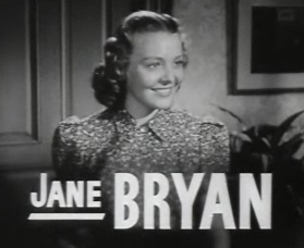 Screenshot of Jane Bryan from the trailer for the film Invisible Stripes.